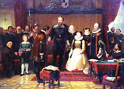 Heinrich II., called Posthumus, welcomes Nicolaus de Smit in 1592. Work from Heinrich Kirchgeorg. Oil on canvas, 1892.